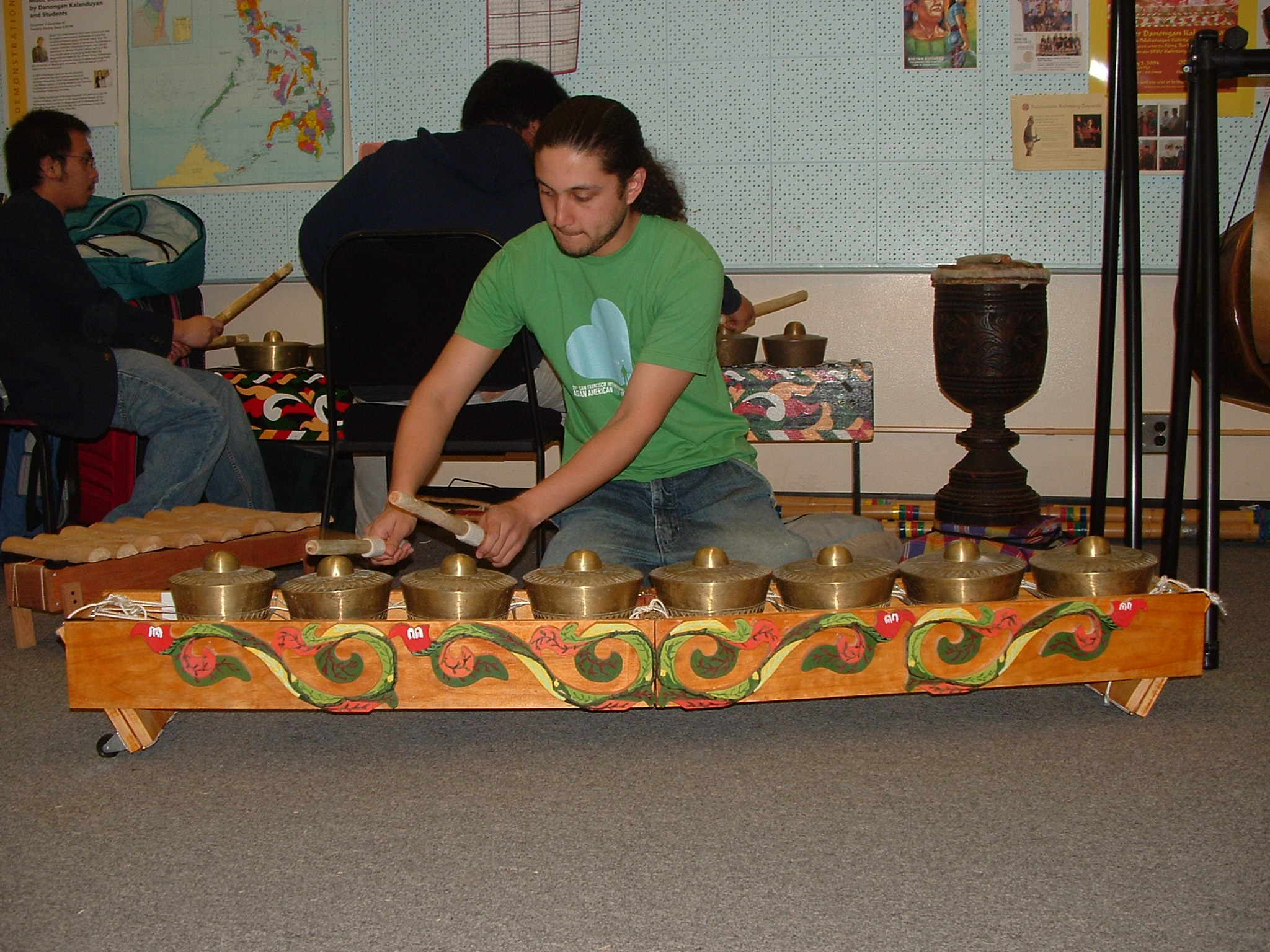 The eight Philippine horizontally laid, knobbed gongs known as the kulintang used as a main melodic instrument in the kulintang ensemble. Here, it is being played Tausug-style on the floor at San Francisco State University by teacher assistant Ronald Gabriel Quesada.